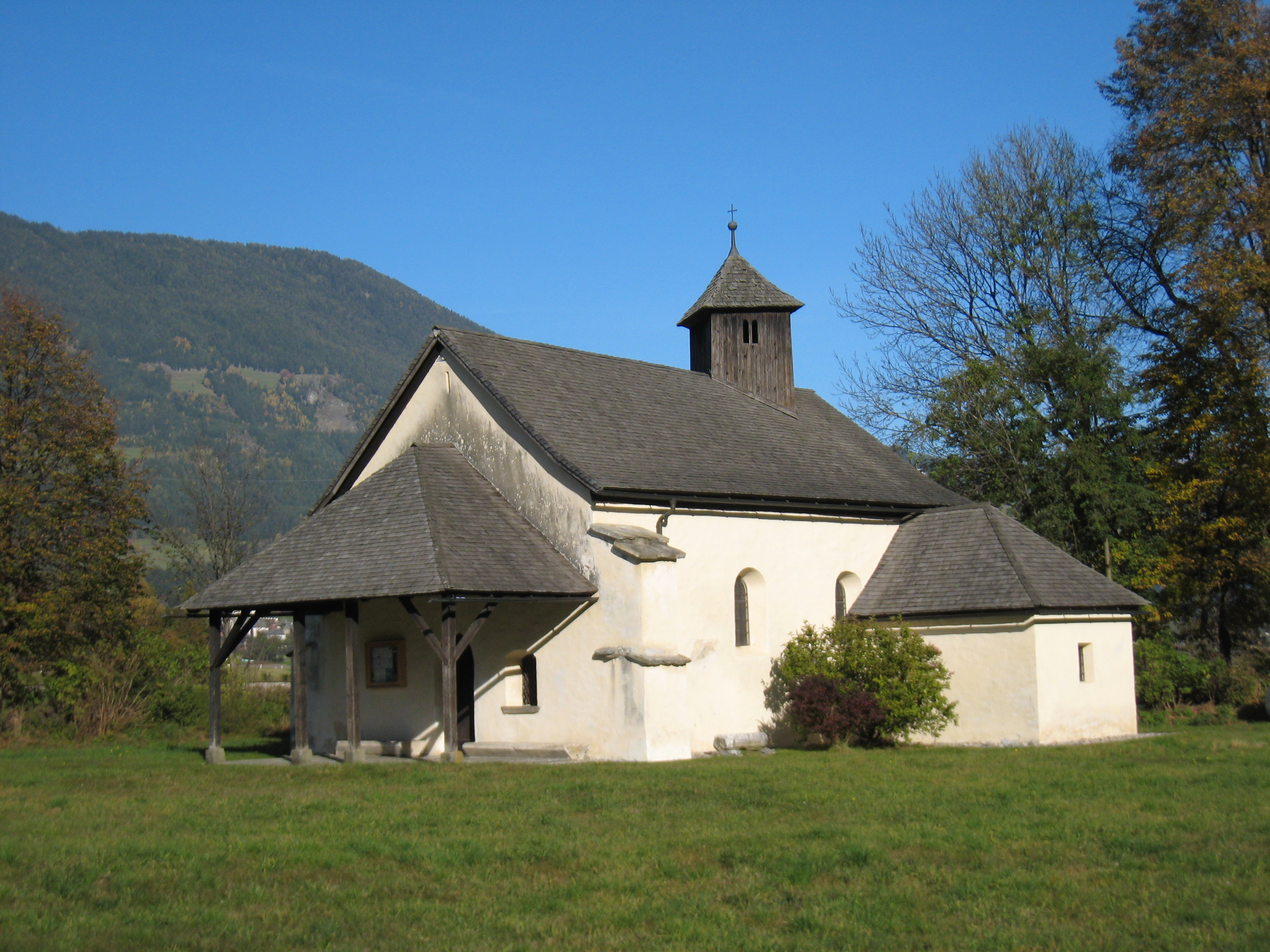 Subsidiary church Saint Magdalene at Moellbruecke, municipality Lurnfeld, district Spittal an der Drau, Carinthia / Austria / EU